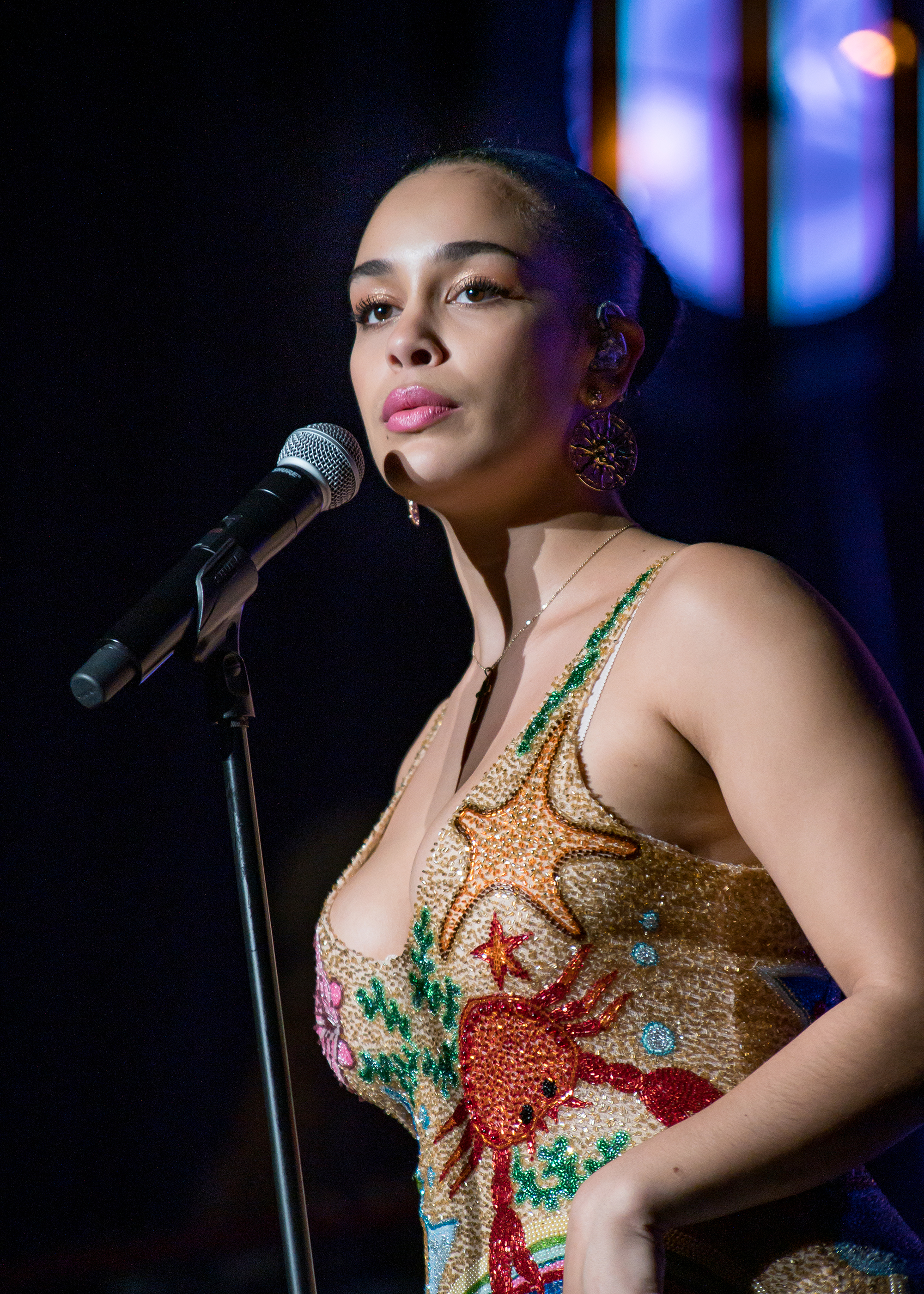 Jorja Smith performing live at The Wiltern theatre in Los Angeles, California, on Monday, November 26, 2018. Shot for Ones To Watch.